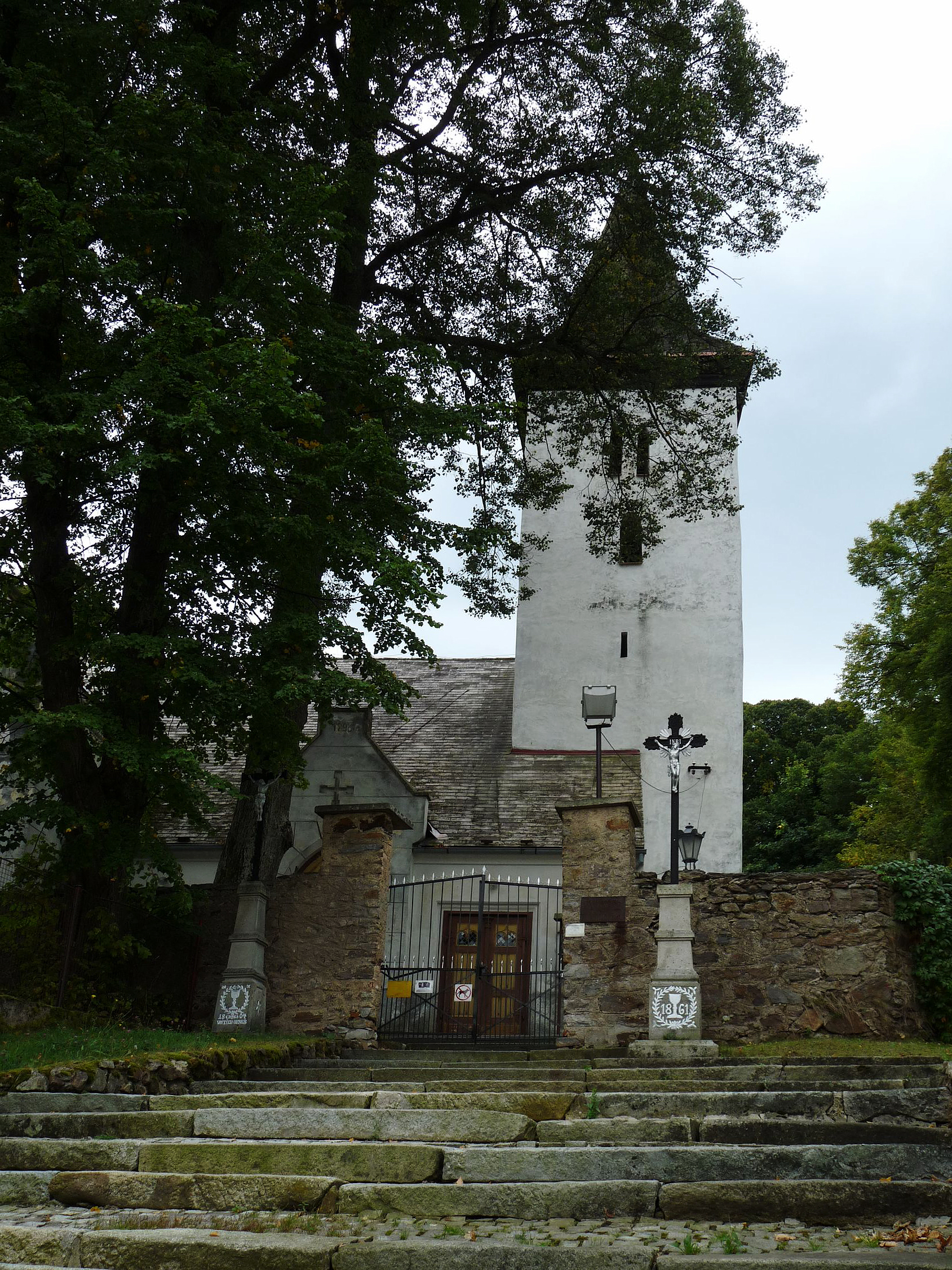 Saints Peter and Paul Church in the village of Zdíkovec in Prachatice District, Czech Republic, part of the municipality of Zdíkov. Česky: Kostel sv. Petra a Pavla ve vsi Zdíkovec v okrese Prachatice, části obce Zdíkov.